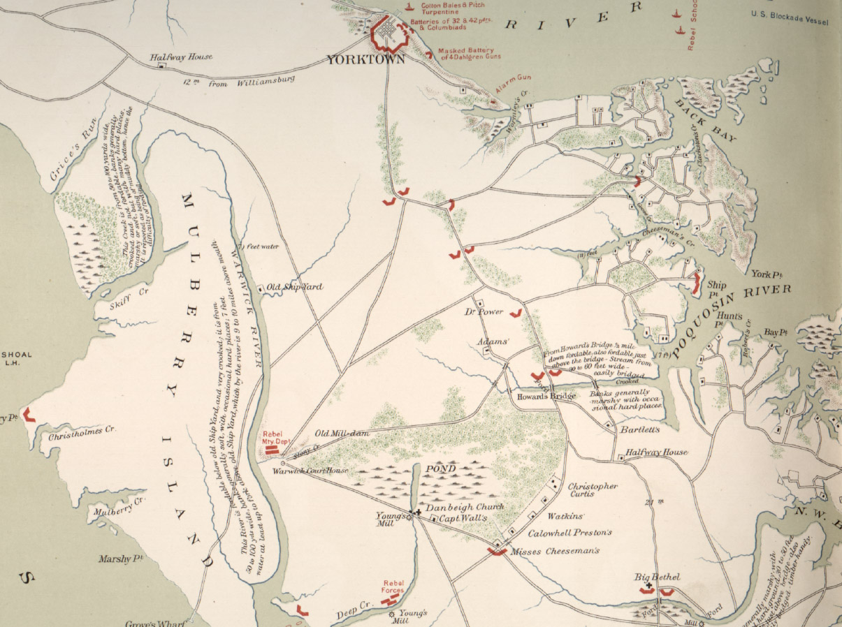 Part of the original map, furnished for gem McClellan at his request by gen Wool